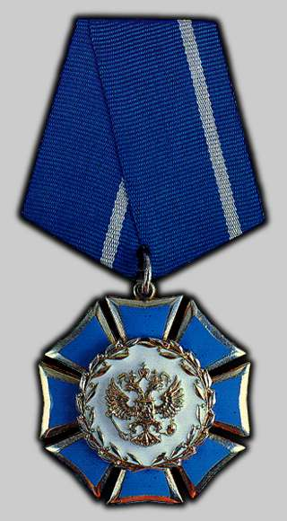 Russian Order of Honor